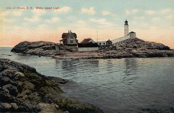 White Island Light, Isles of Shoals, NH; from a c. 1910 postcard.